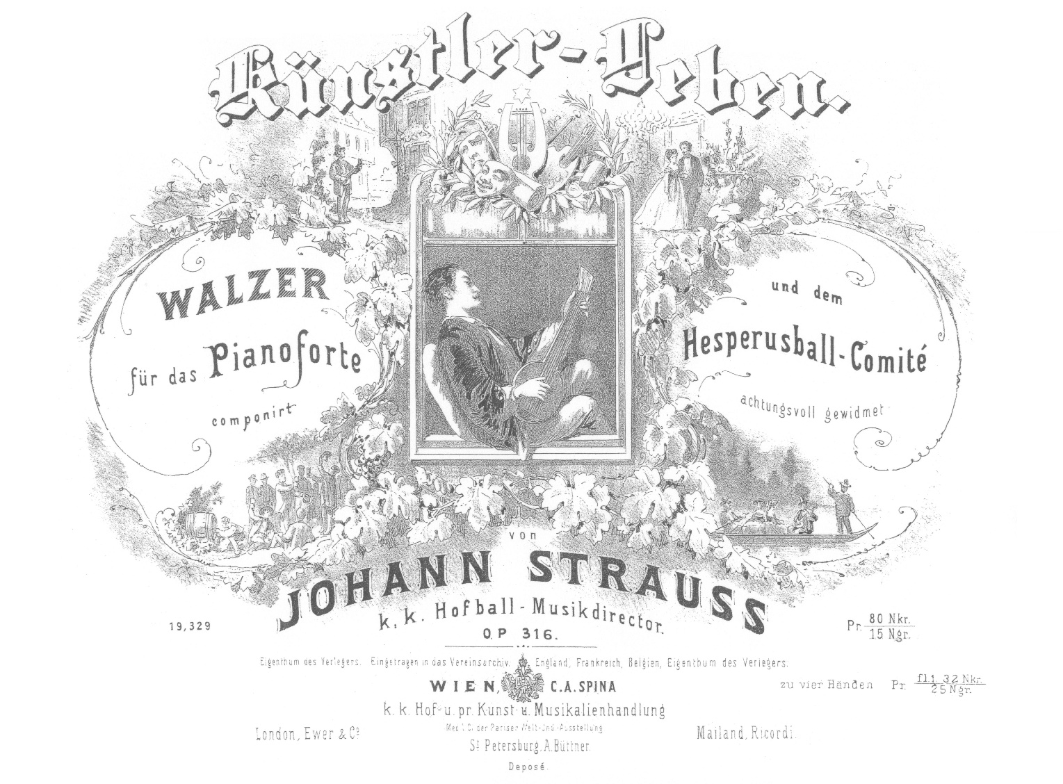 Artist's Life, Waltz